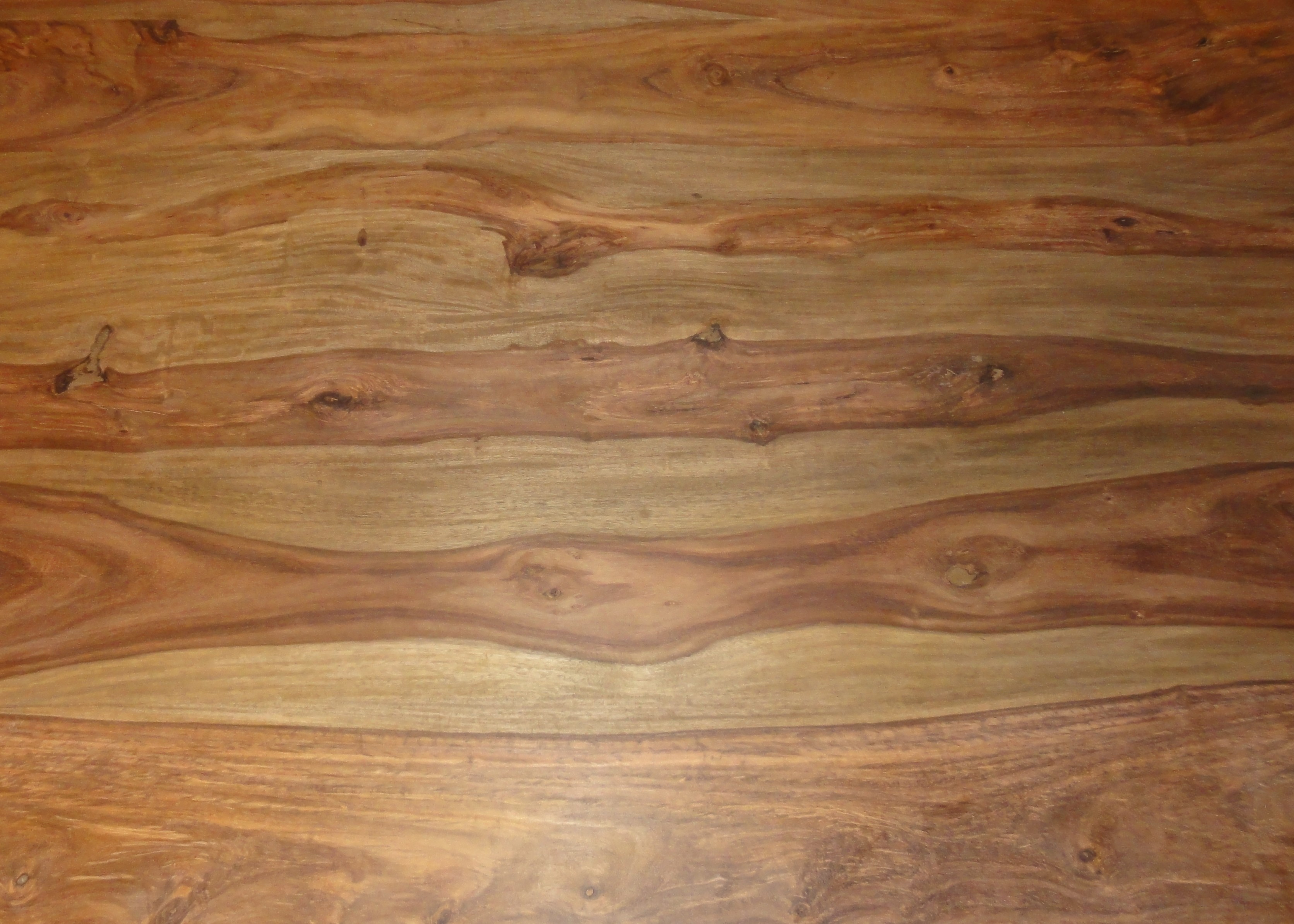 Table surface made of Sheesham Wood